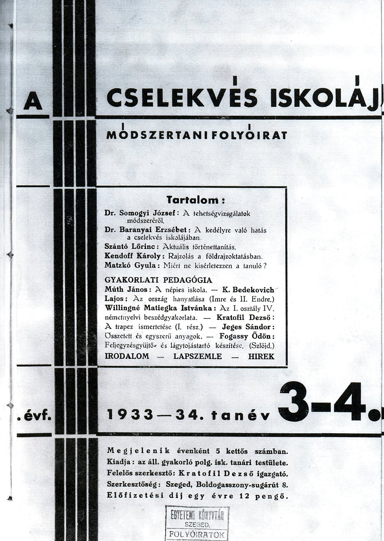 A Cselekvés Iskolája periodical review 1933-34